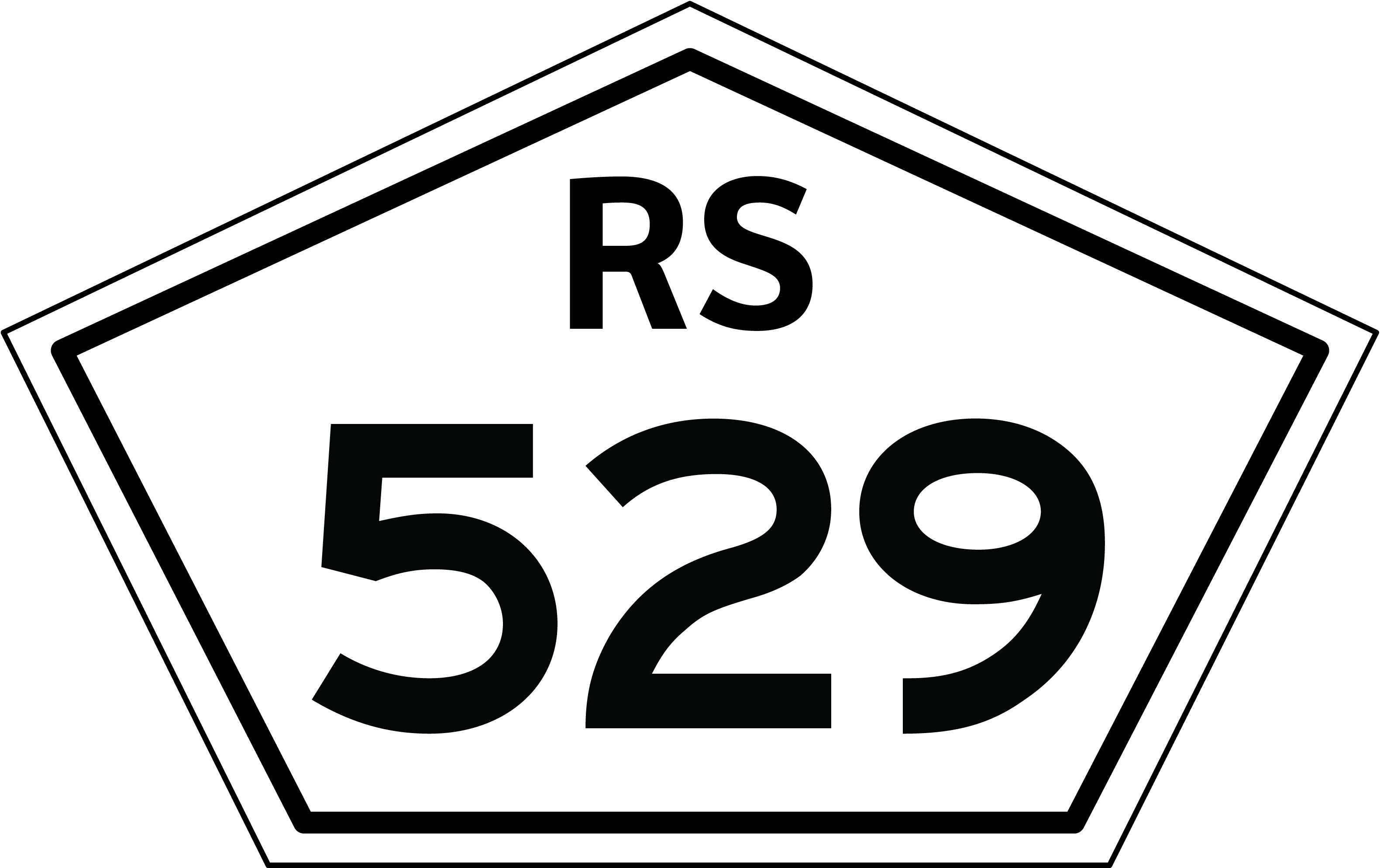 RS-529 State road in Rio Grande do Sul, Brazil. Rua estadual no Rio Grande do Sul, Brasil.